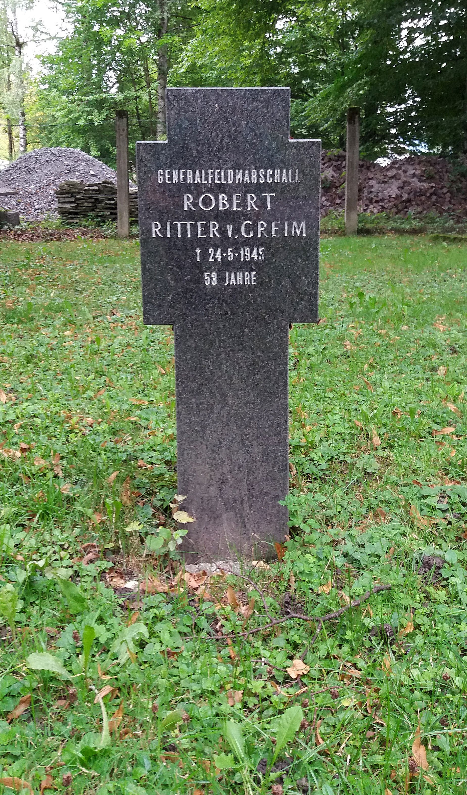 Grave of Robert Ritter von Greim (1892–1945), German flying ace in World War I, Field Marshal and last commander-in-chief of the Luftwaffe in World War II, located in the "War Graves 1939-1945" section of Salzburger Kommunalfriedhof.